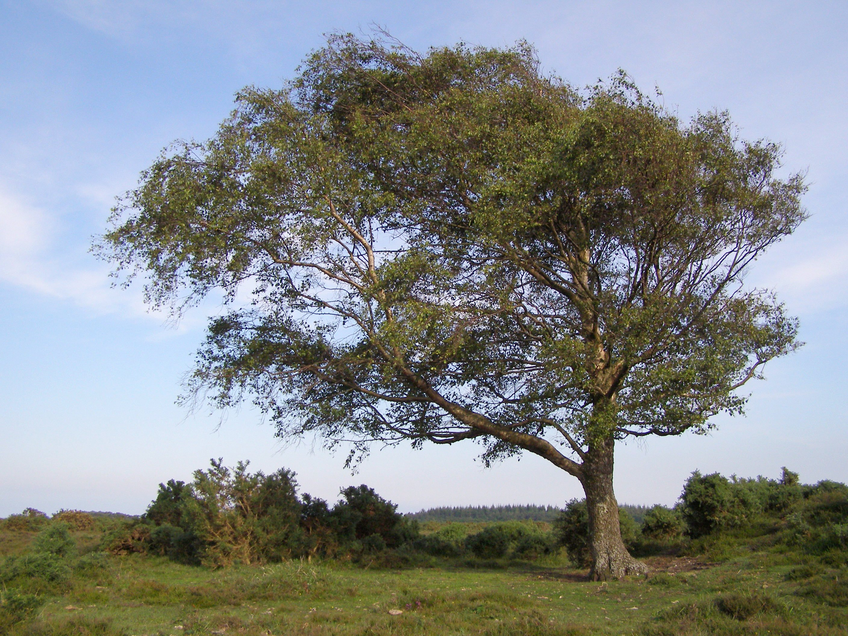 Windswept silver birch, New Forest National Park – Prevailing winds coming in from the right. This silver birch stands next to Laurence's Barrow on Beaulieu Heath, exposed to the wind coming in from the sea. Norley Inclosure in the distance.